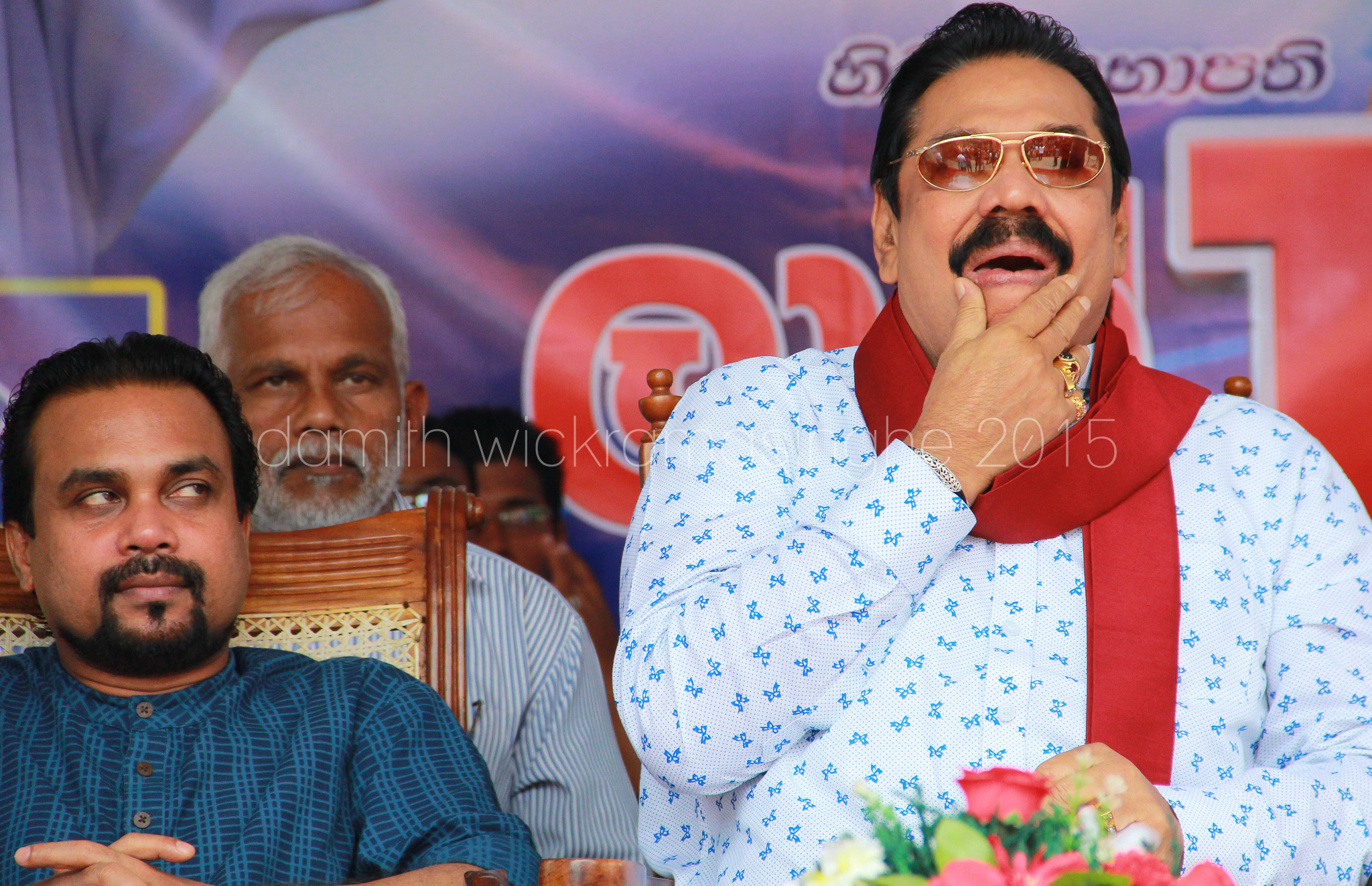 Politics of Sri Lanka